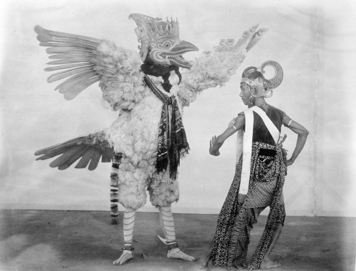 Wayang wong performance 'Jaya Semadi and Sri Suwela' in the palace of the Sultan of Yogyakarta